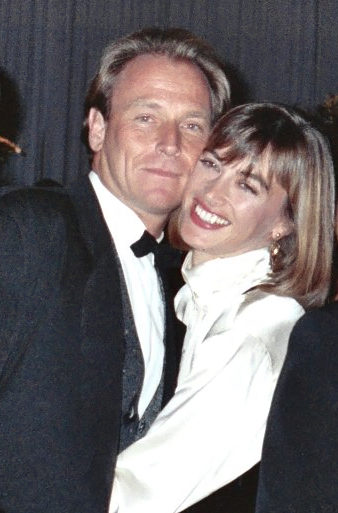 Actors Corbin Bernsen and wife Amanda Pays at the Emmy Awards Governor's Ball, 16 August 1990. Cropped from original photo by Alan Light.